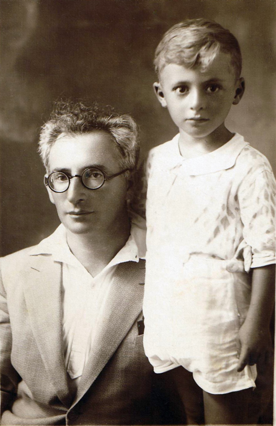 The hebrew poet and writer Levin Kipnis and his first-born son, Shai